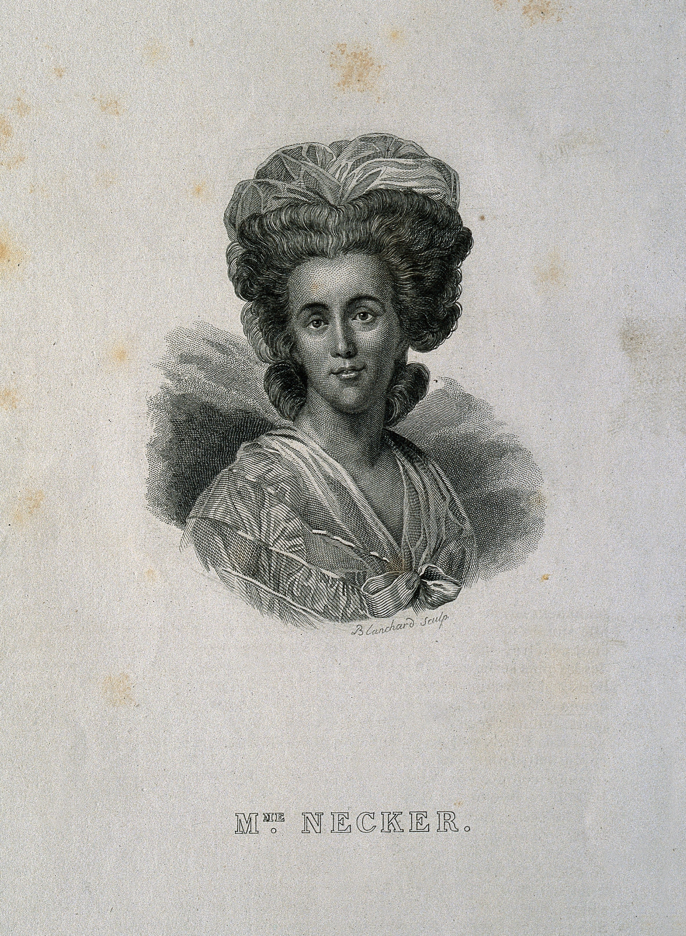 Suzanne Necker [Curchod]. Line engraving by Blanchard. Iconographic Collections Keywords: portrait prints; engravings; Blanchard; Suzanne Necker